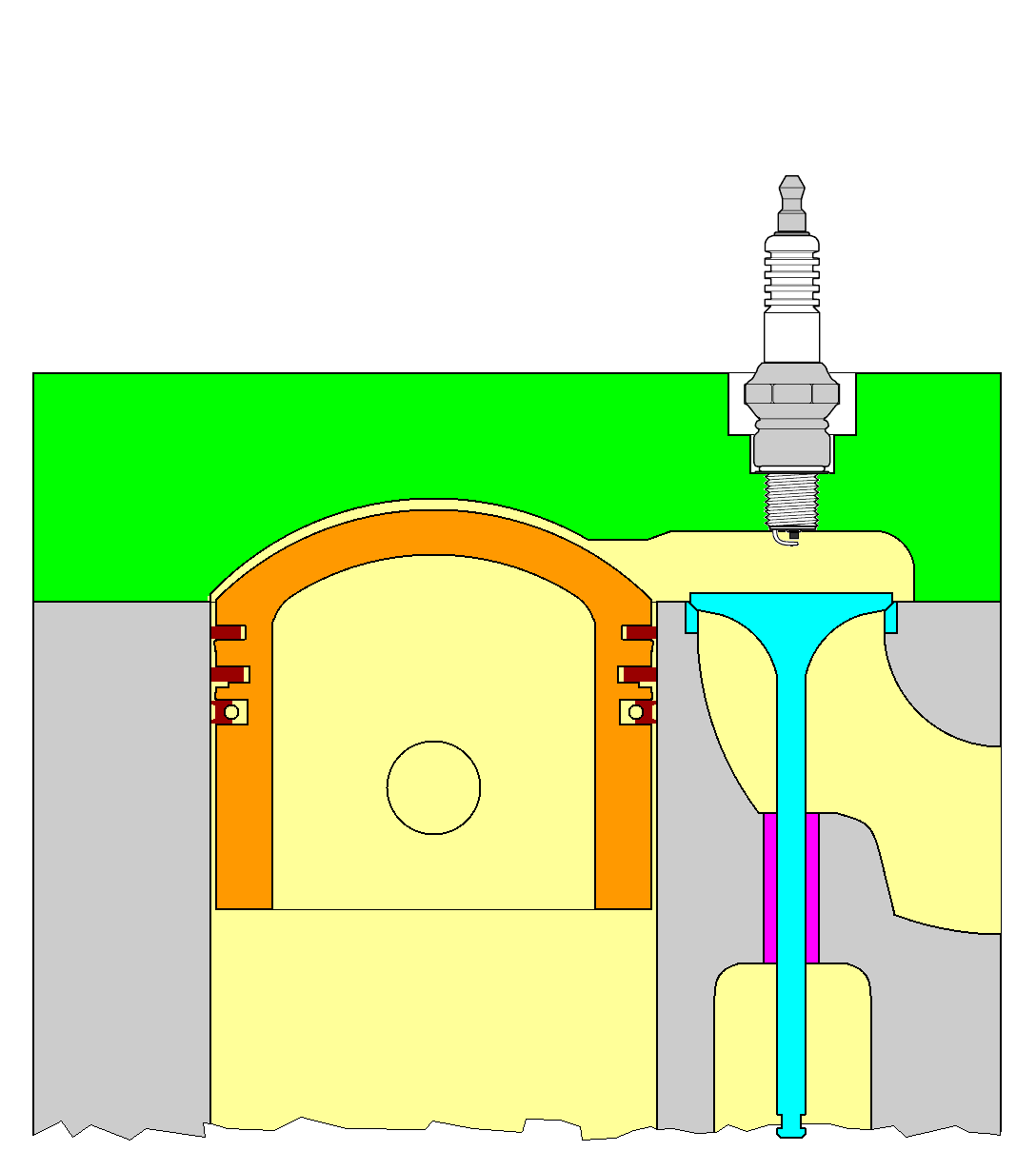 A high-dome pop-up piston in an L-head side-valve engine, approximately according to the description by Barney Navarro, 27 January 2002.